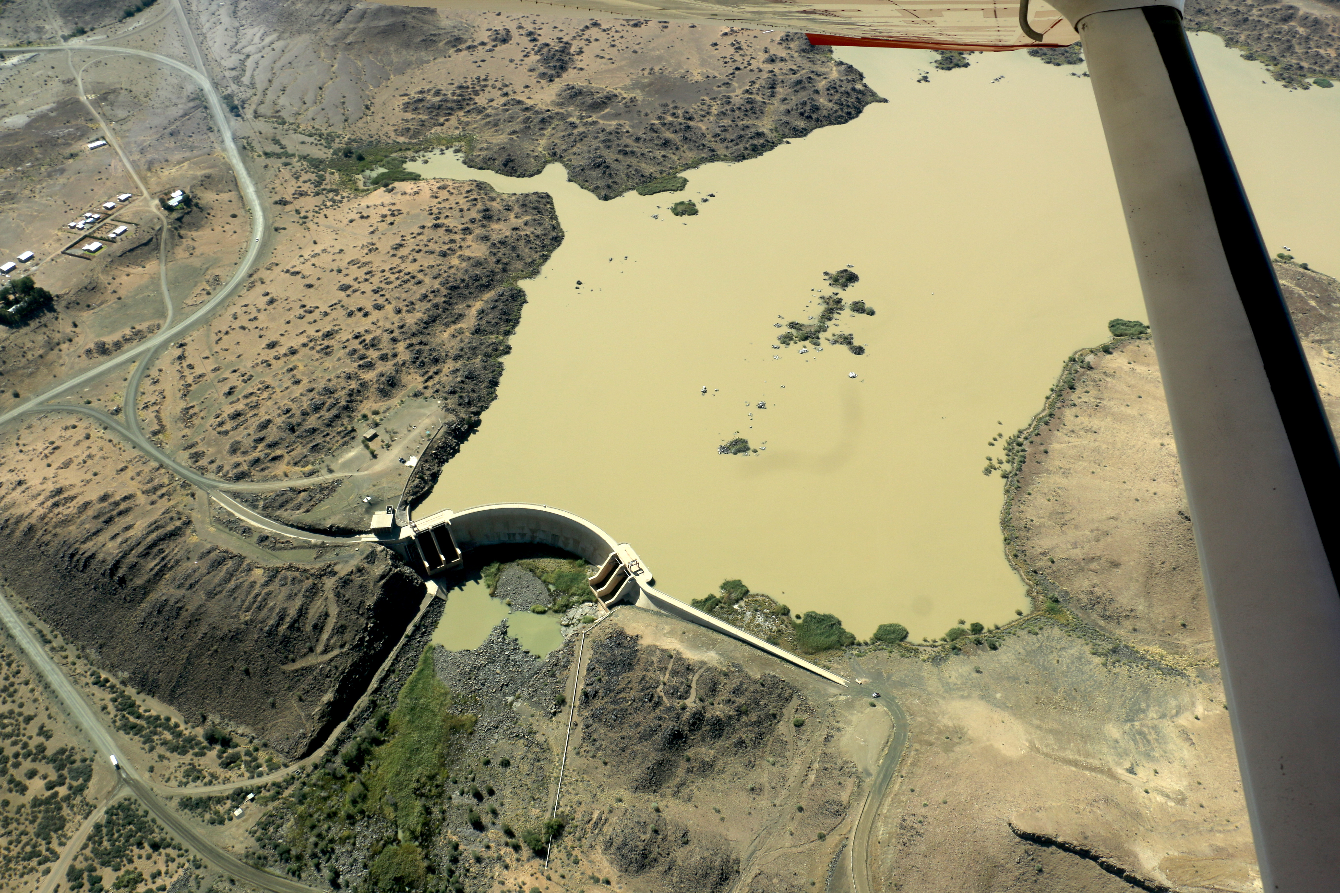 Bird's eye view of Naute Dam (Picture from Mai 2017)